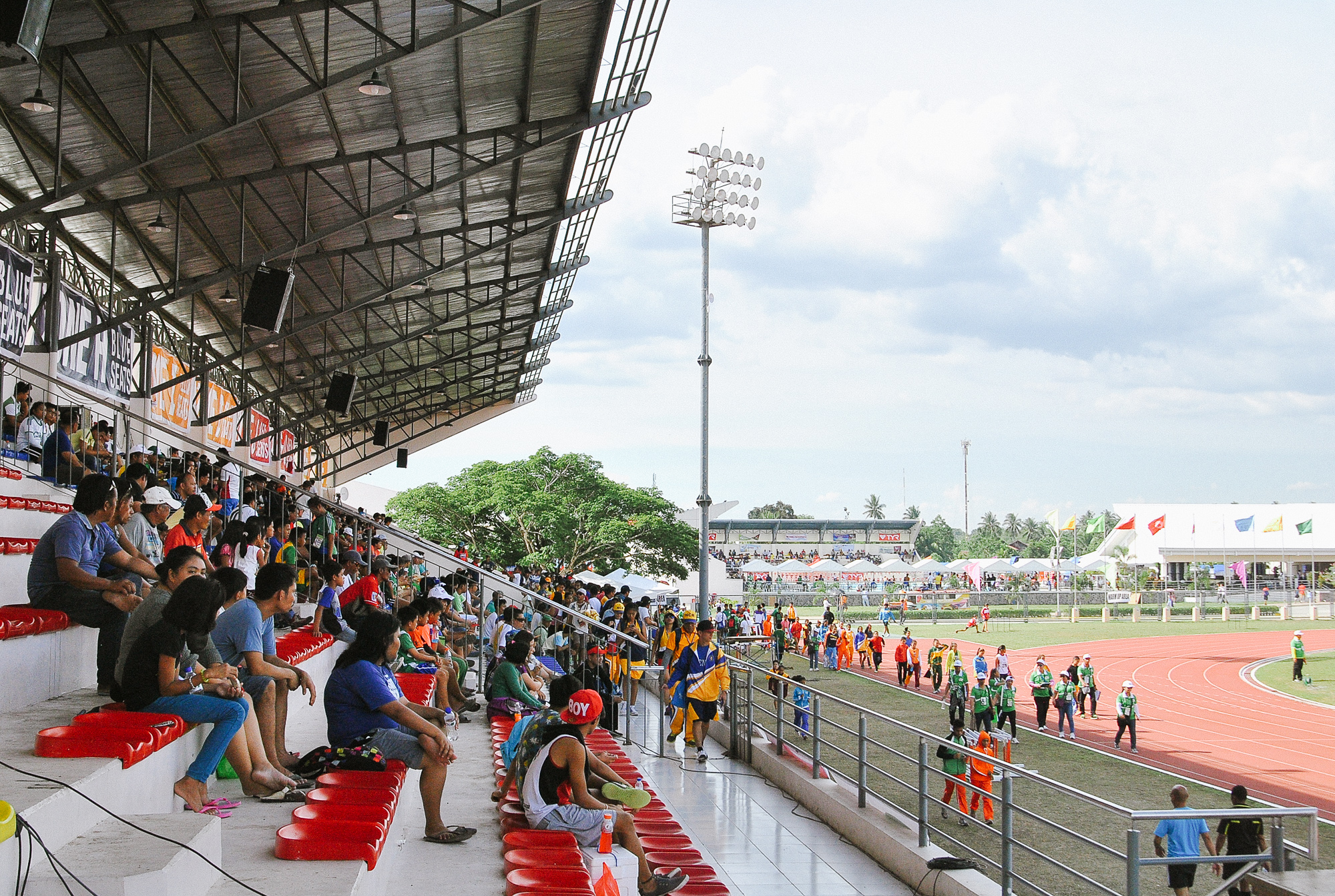 View of the main grandstand and track oval of the Davao del Norte Sports and Tourism Complex. At the distance are the Aquatic Center and Clubhouse.